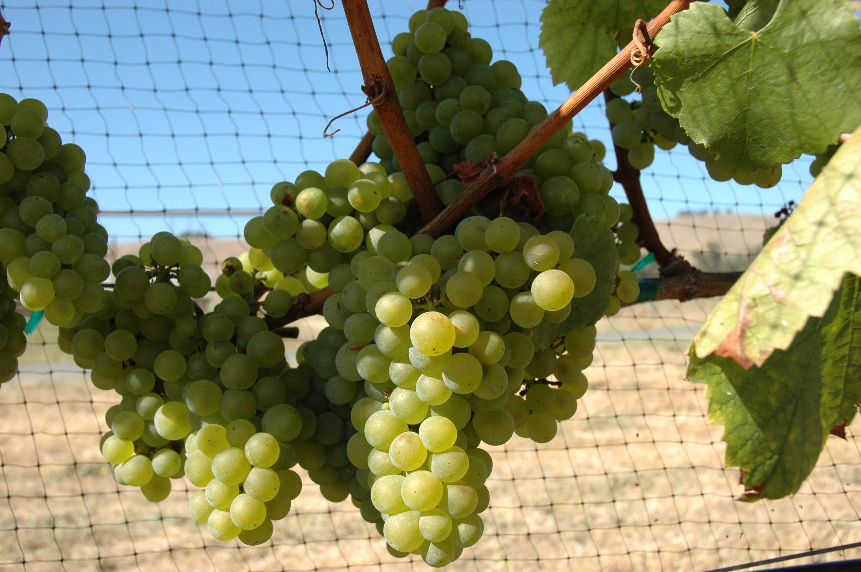 Chardonnay grapevines by Jeanette King. (August 2006)